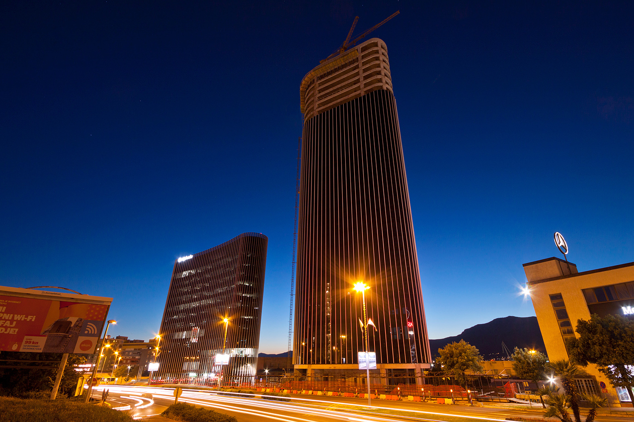 Westgate Tower B sunset construction